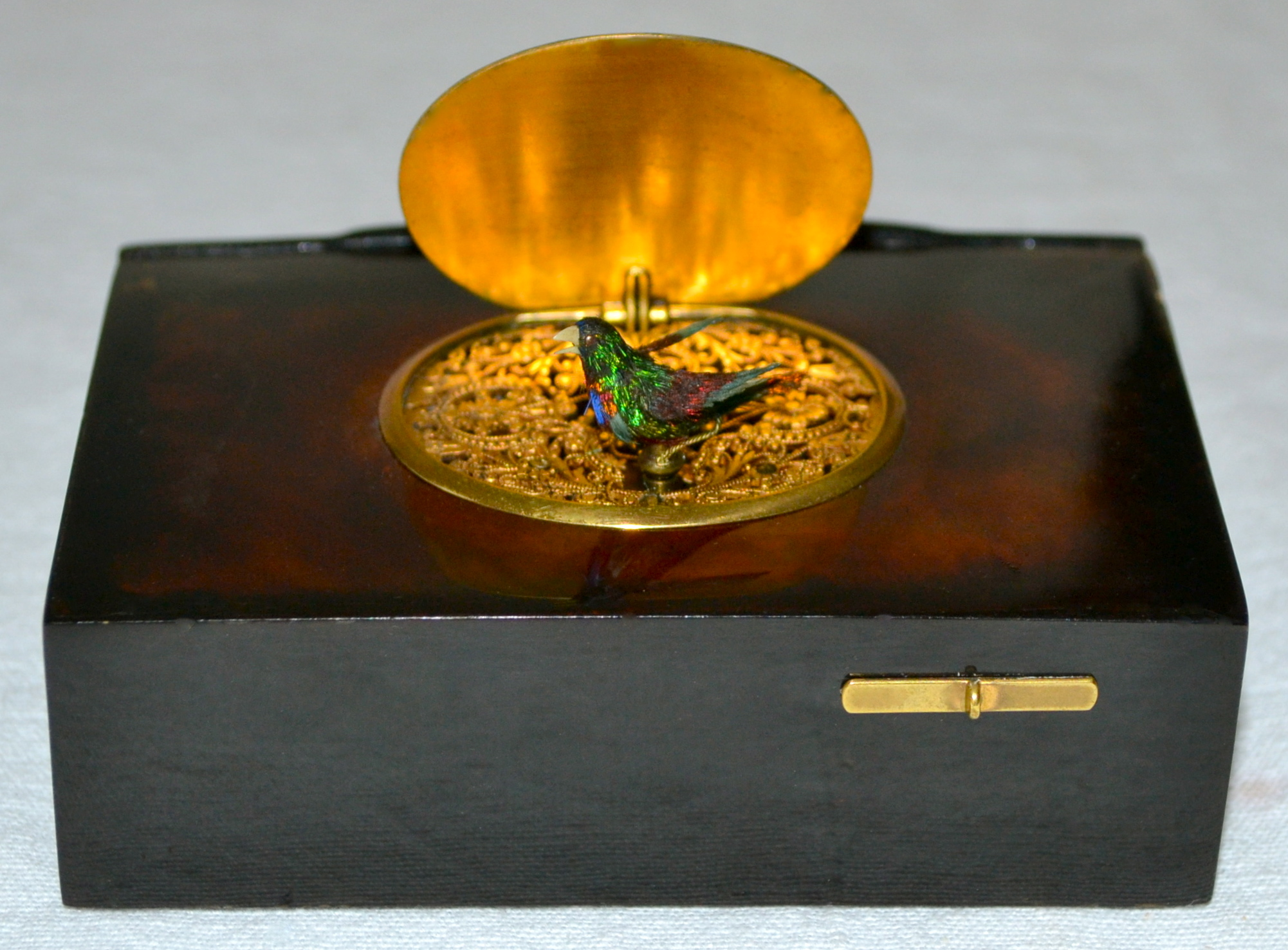 Singing bird box model nº 11 by the French automata maker Bontems, circa 1890. Fitted with a going-barrel movement. The full-bodied bird with spiral legs exhibits multi-coloured layered feathered plumage with predominant tones of green and red complemented with also green, red, orange and blue iridescent hummingbird feathers, giving as a result a well-combined palette of colours. They were dressed by hand so no two birds look exactly alike. The birds made by Bontems in this period are the most detailed and proportionate they ever made. It goes up and down, moving bone beak, wings and tailfeather to continuous realistic birdsong, rising through finely pierced and tooled gilt grille. Plain polished silver gilt matt finished lid interior, while the exterior shows a pair of hand-engraved birds, foliage and floral decoration framed by a plain oval border, in highly polished tortoiseshell case with a small hinged compartment to rear, matching gilt start/stop button to front-right. The top interior of the case has been shaved, getting a semi-transparent look with a rich variety of tones and shades of honey, brown and amber colours, which allows to see part of the mechanism in action. Measurements: 10 cm by 6.70 cm by 3.10 cm. Museo Cerralbo.